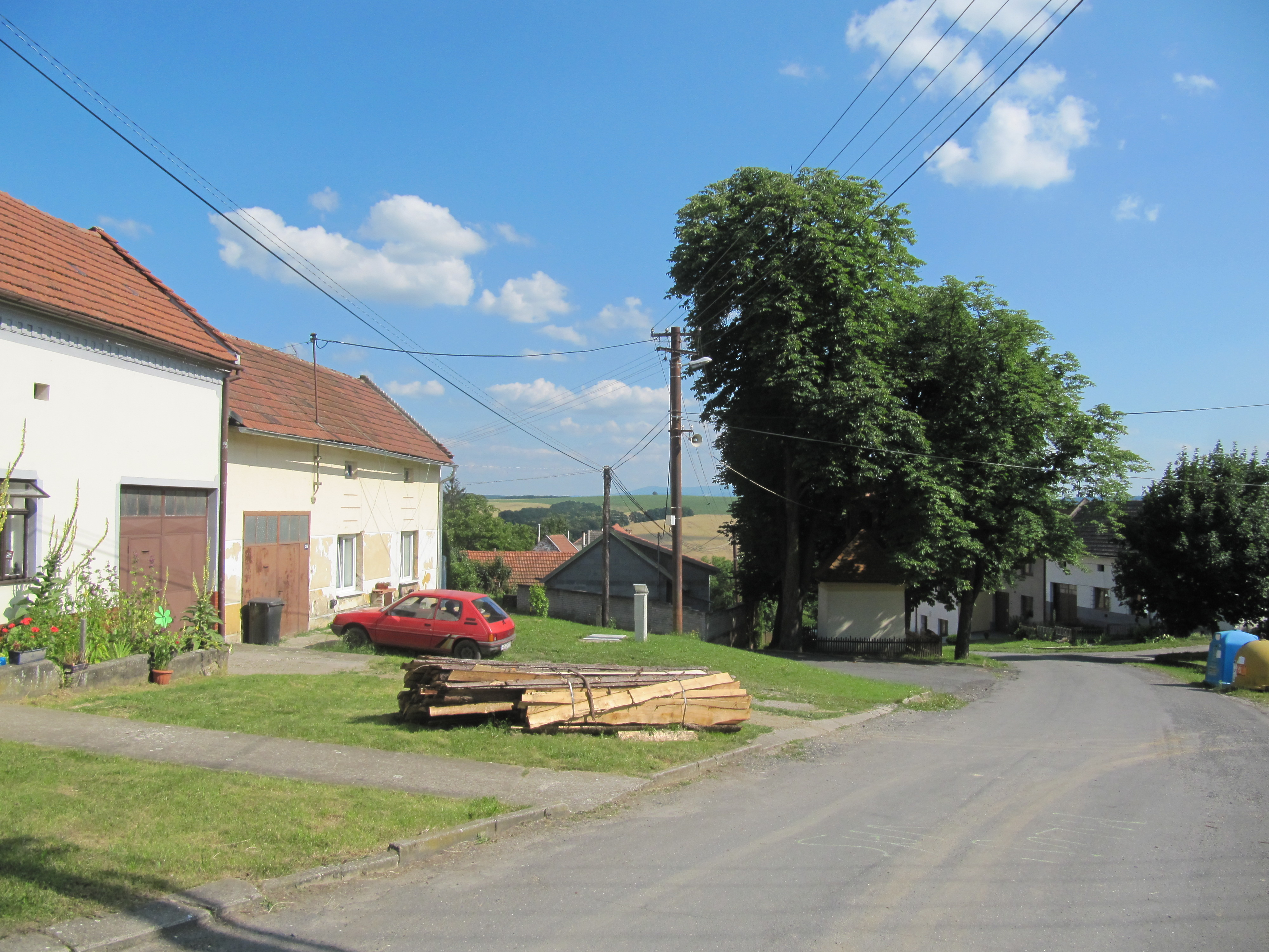 Mistřice, Uherské Hradiště District, Czechia, part Javorovec.